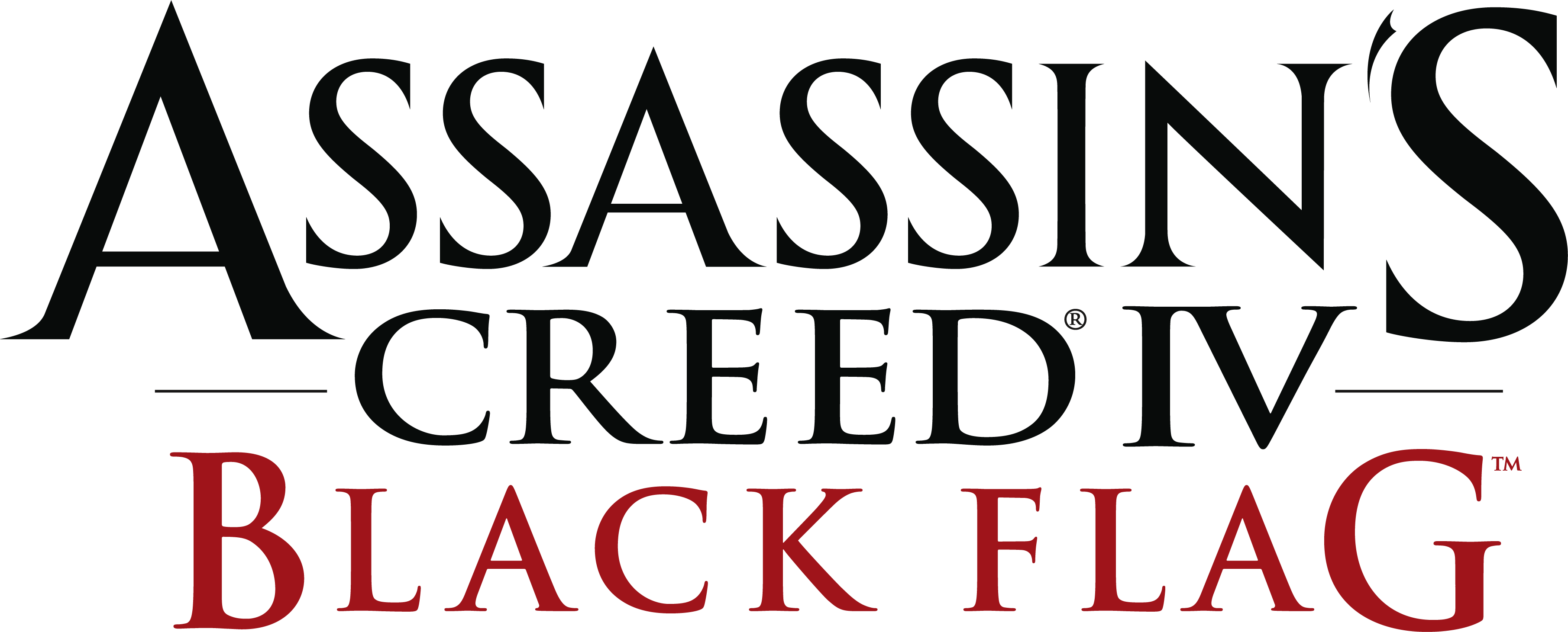 logo without background